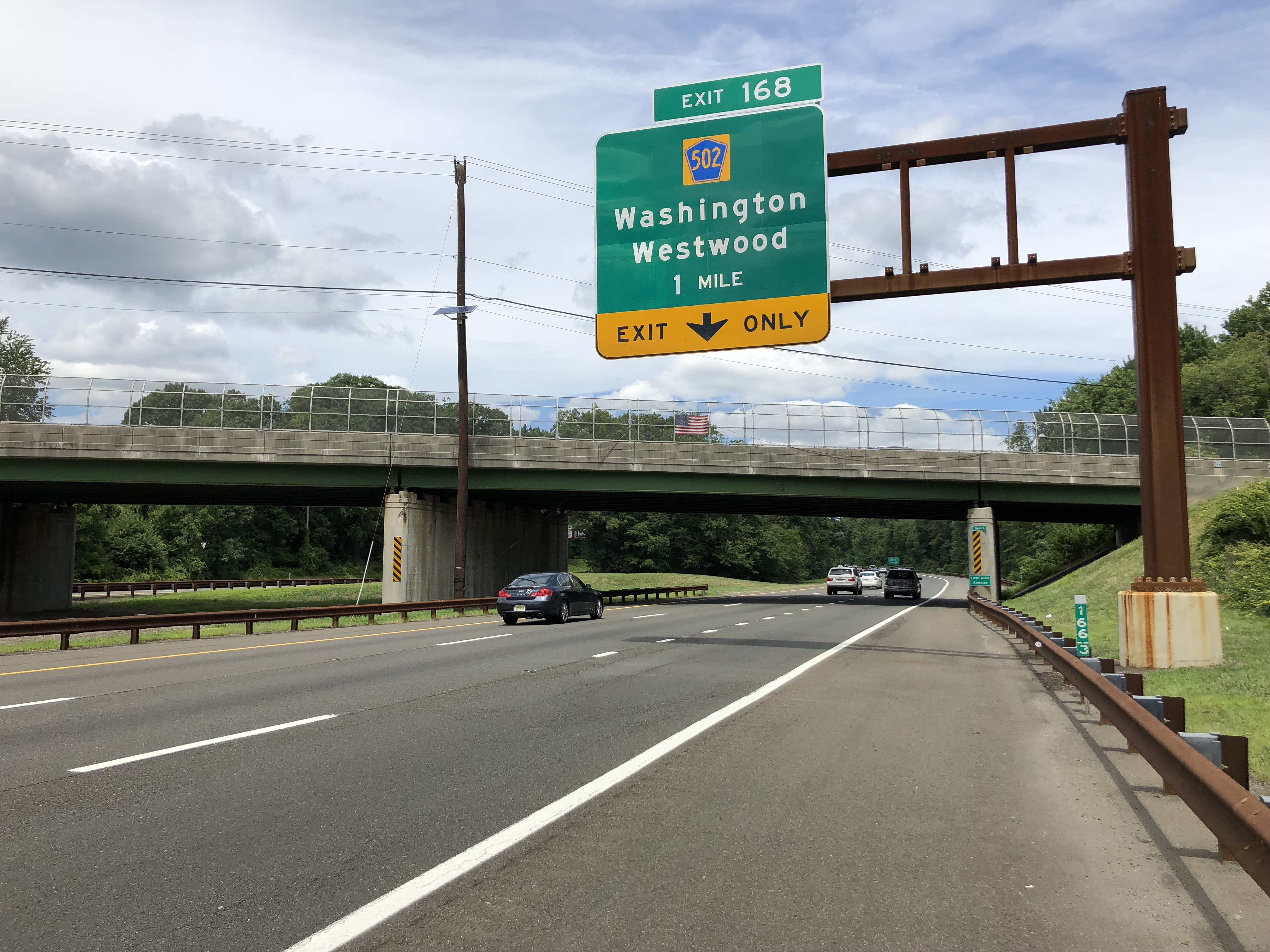 View north along New Jersey State Route 444 (Garden State Parkway) south of Exit 168 (Bergen County Route 502, Washington, Westwood) in Washington Township, Bergen County, New Jersey